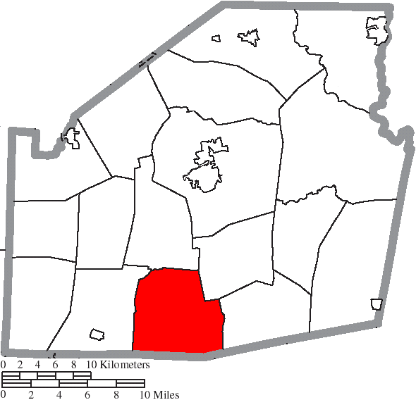 Map of the municipal and township boundaries of Highland County, Ohio, United States, as of the 2000 census, with the location of Concord Township highlighted. Township borders are shown only in unincorporated areas in order to differentiate incorporated and unincorporated areas more clearly.